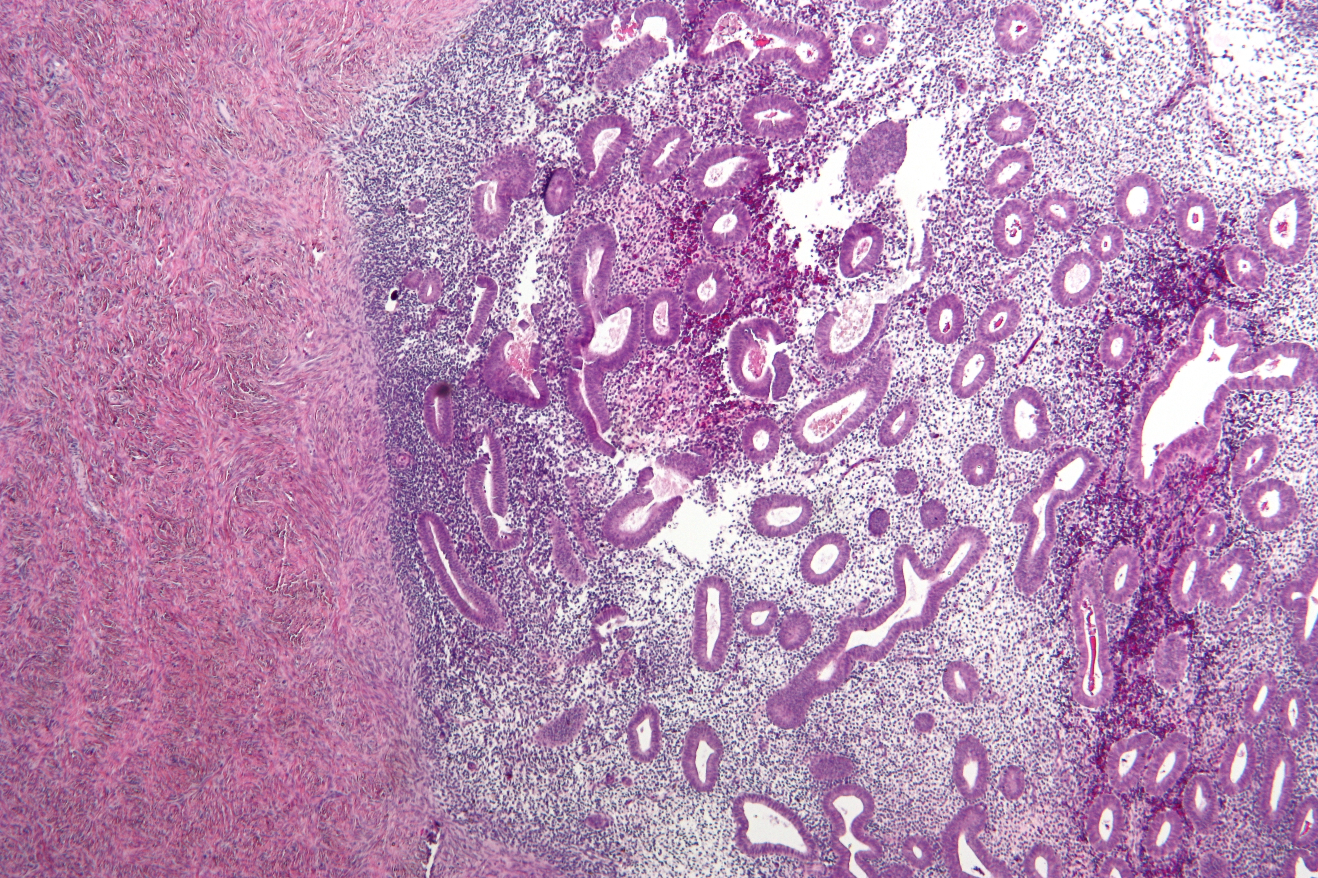 Micrograph of endometriosis of the ovary. H&E stain.